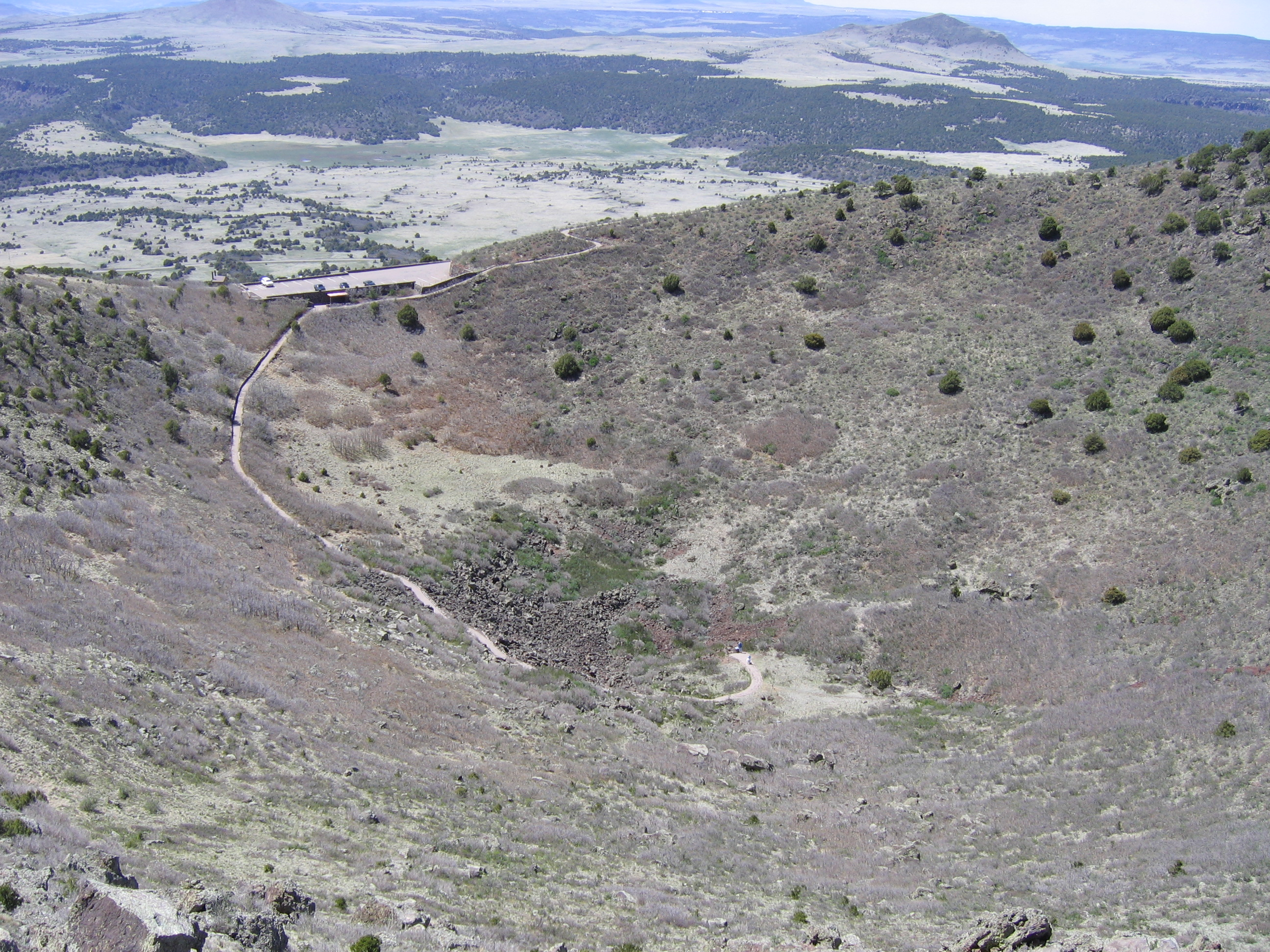 Capulin Volcano National Monument: parking lot on the rim and the trail to the crater floor.